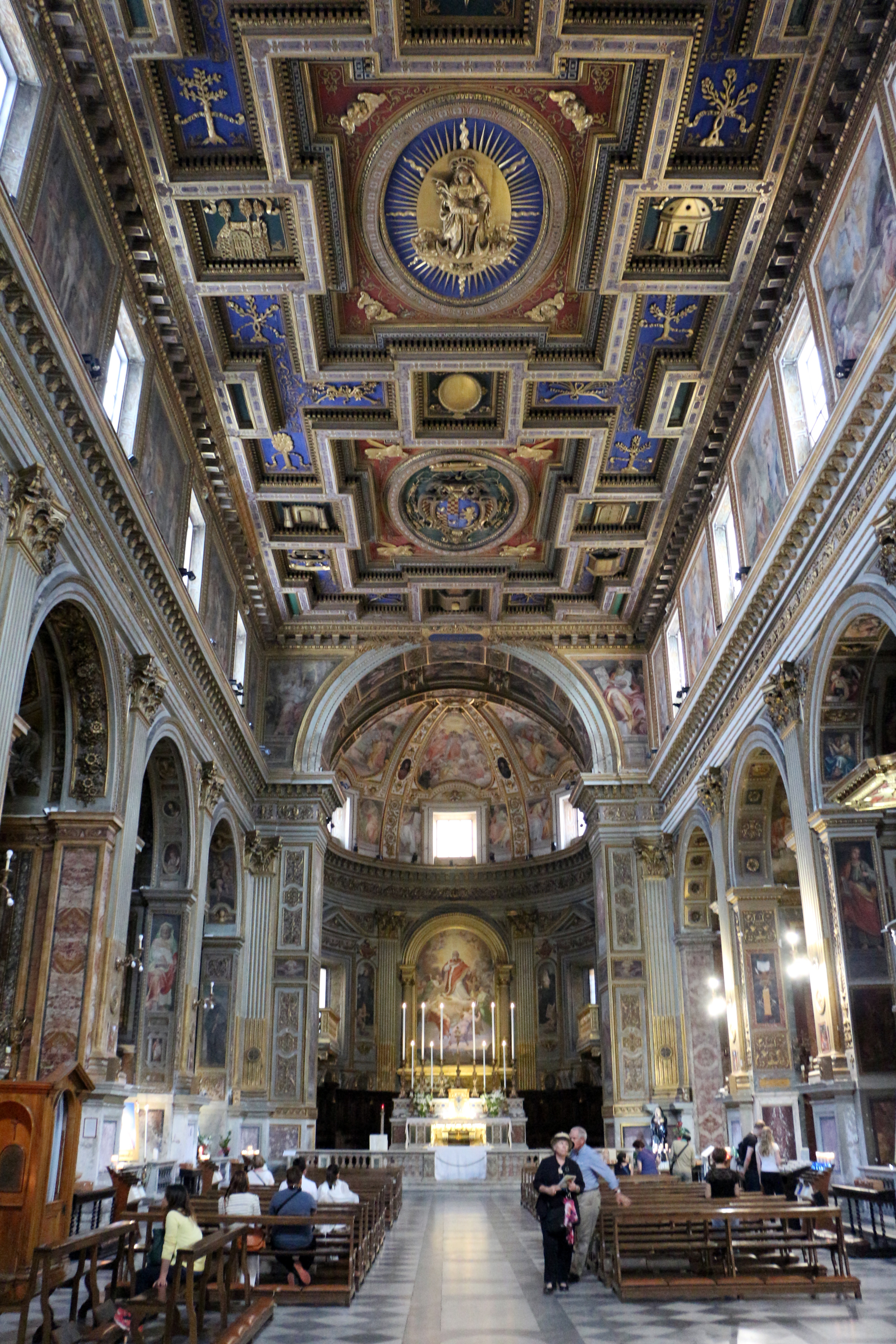 San Marcello al Corso (Rome)